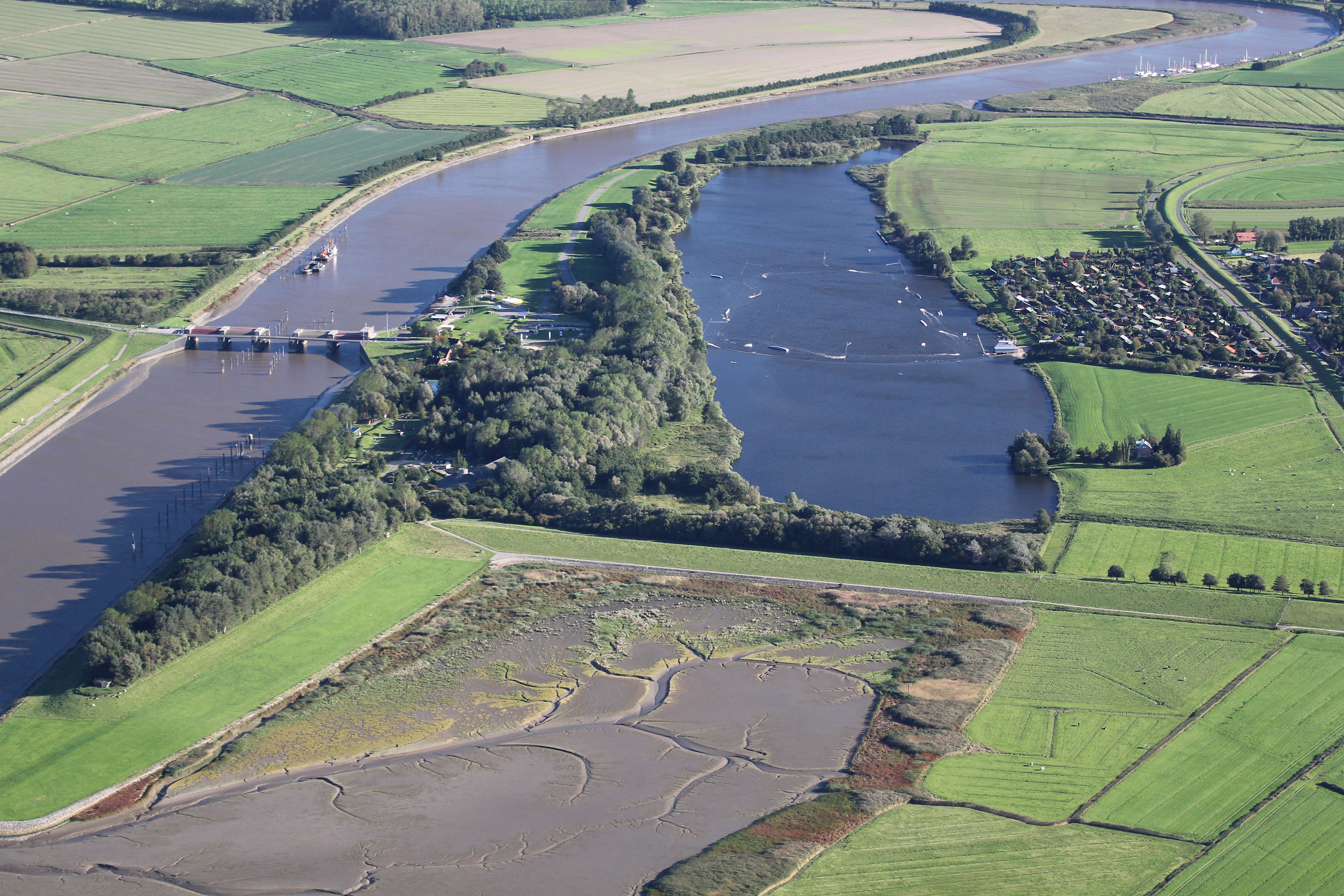 A aerial photograph of a unidentified location.